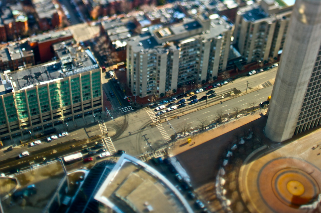 Huntington Ave., Boston